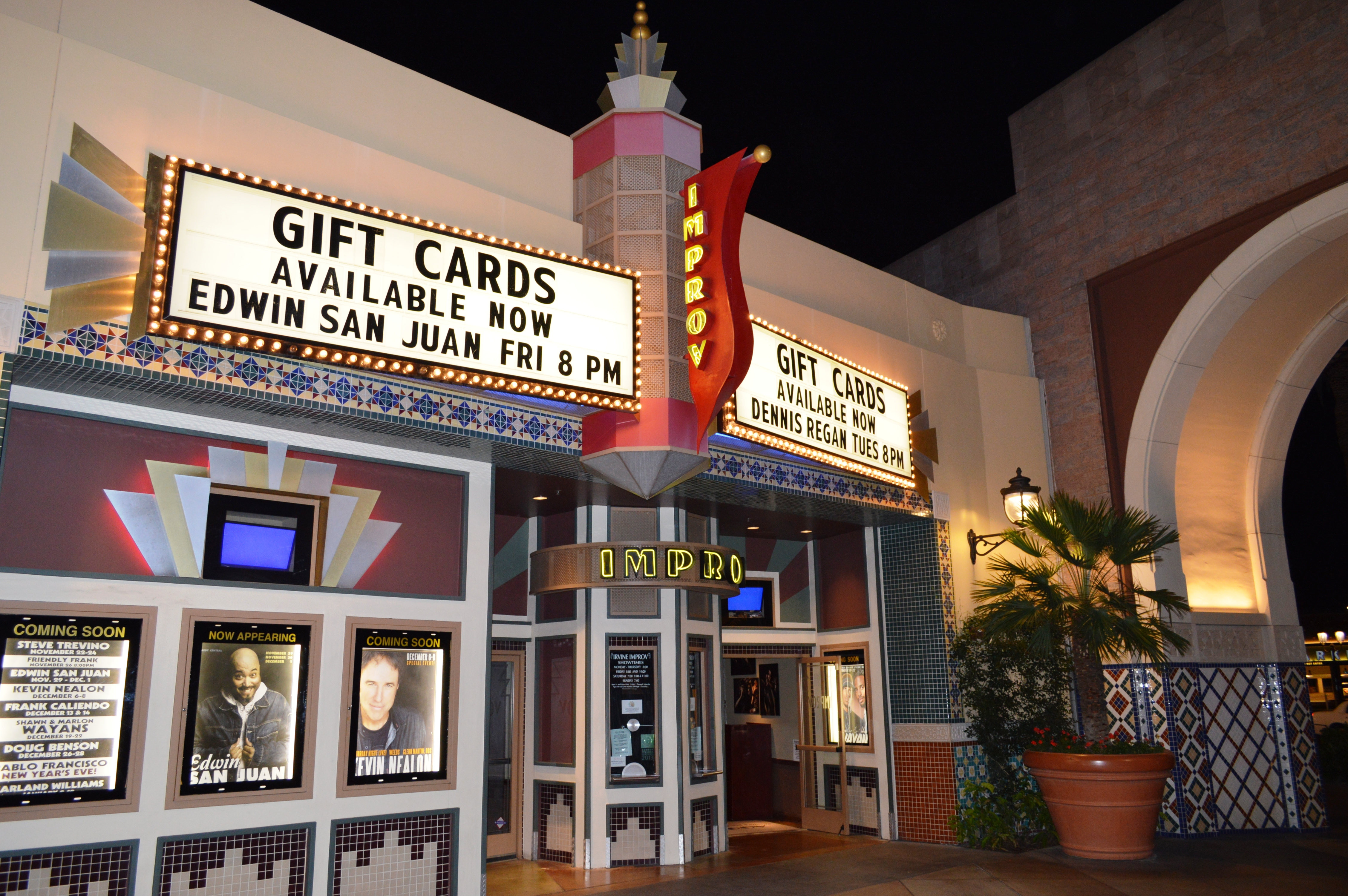 Irvine Improv at the Irvine Spectrum Center in Irvine, California, U.S.A.